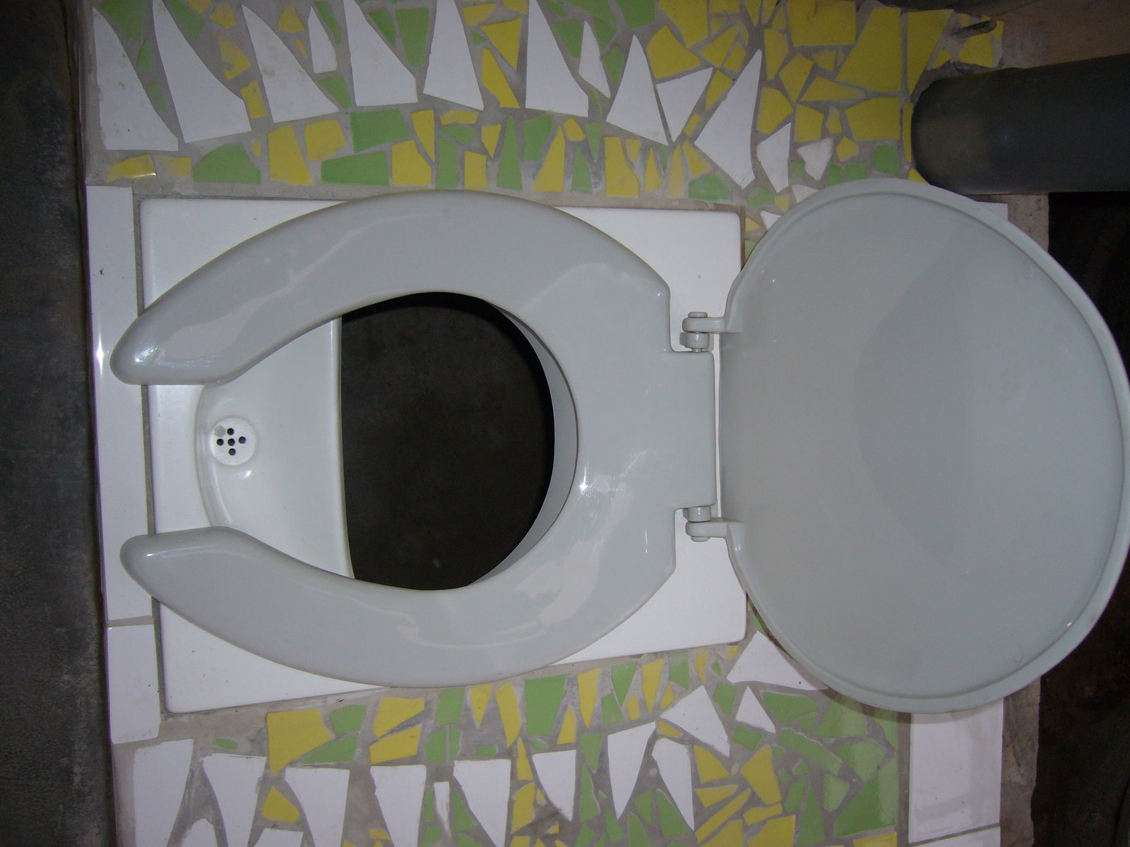 Urine diversion pedestals for UDDTs (urine diversion dehydration toilets)